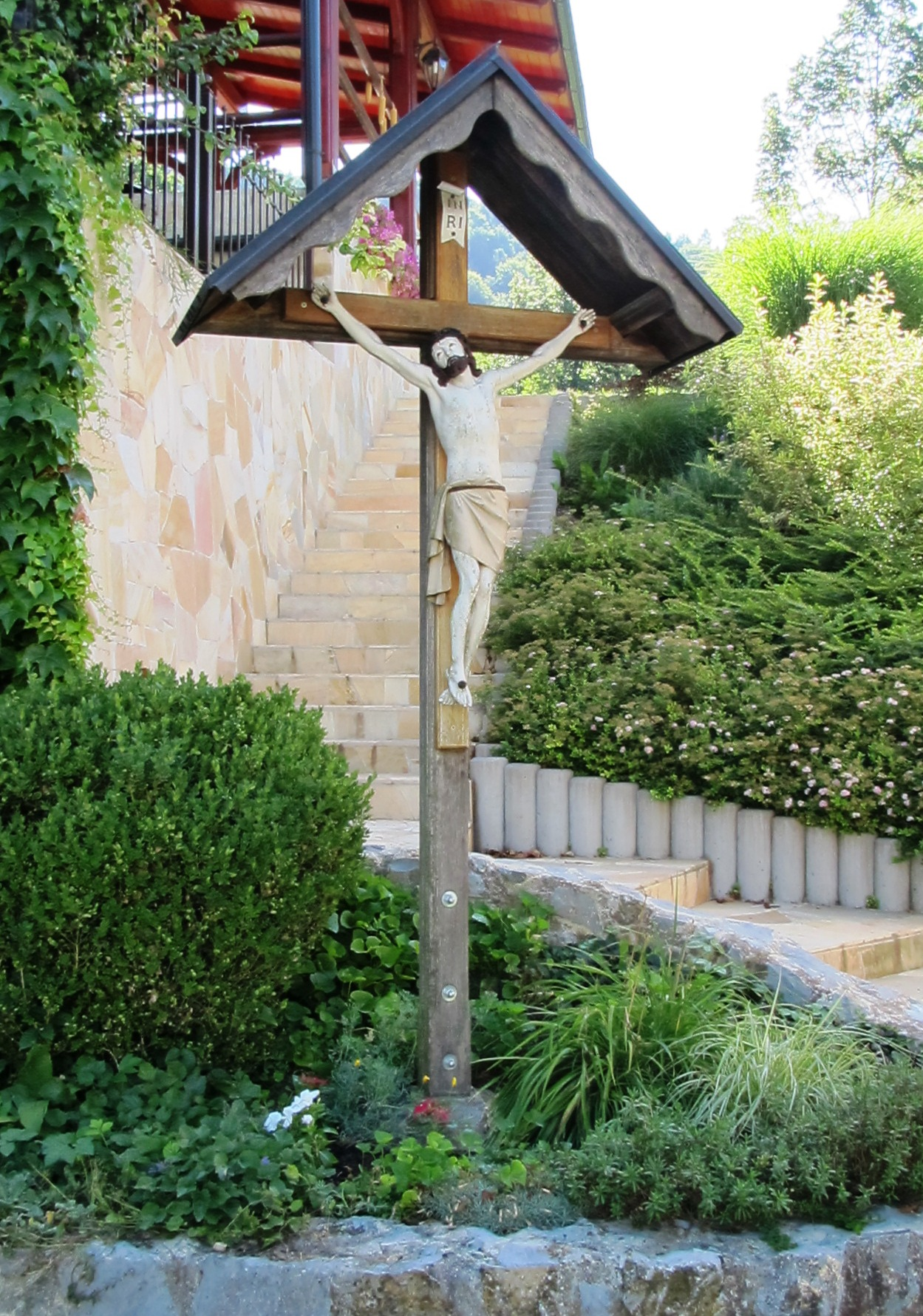 Wayside crucifix in the village of Pristava pri Polhovem Gradcu, Municipality of Dobrova–Polhov Gradec, Slovenia